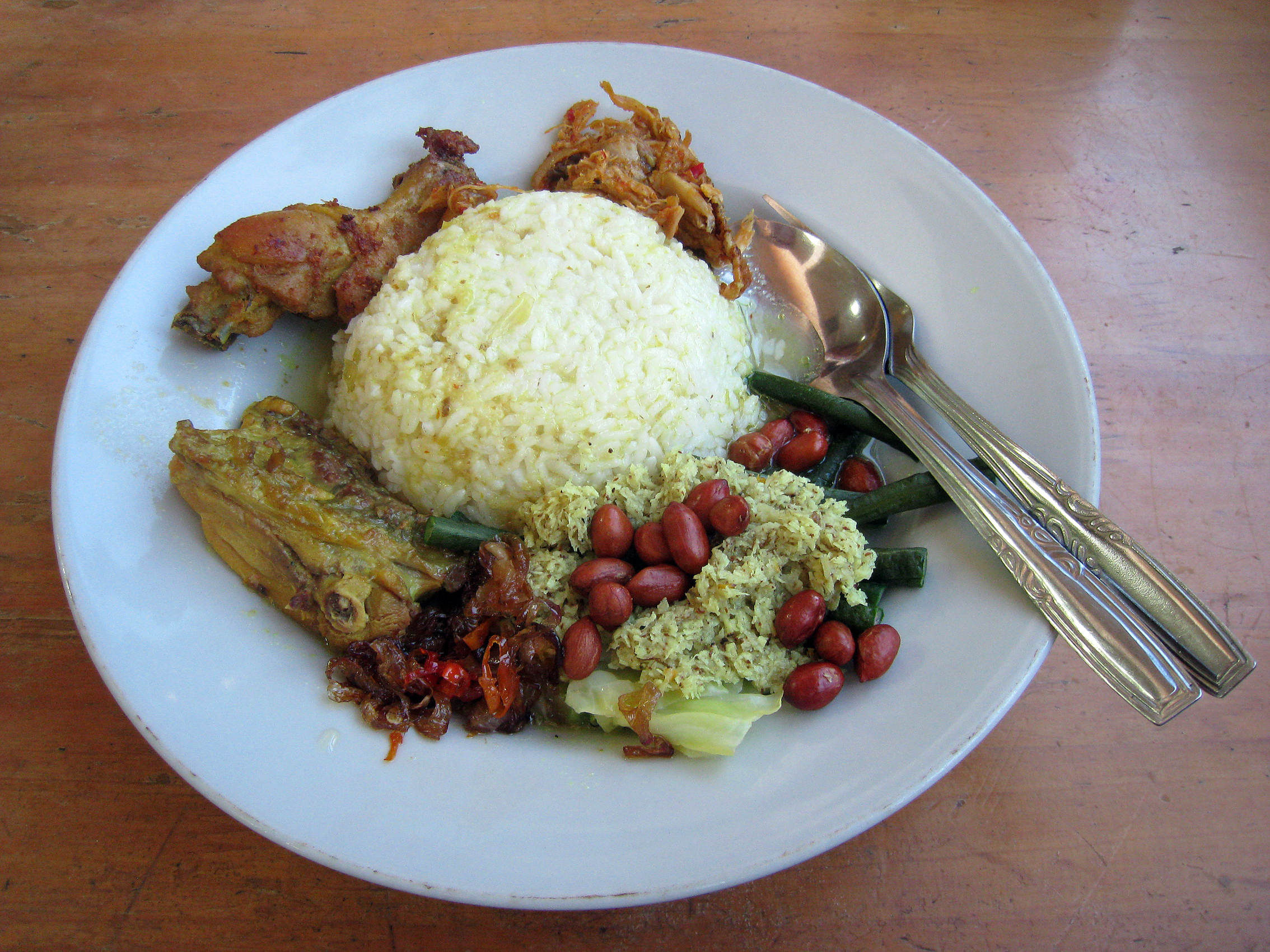 Balinese Nasi Campur (mixed rice) with Ayam Betutu (spiced chicken) and vegetables in Denpasar Bali.